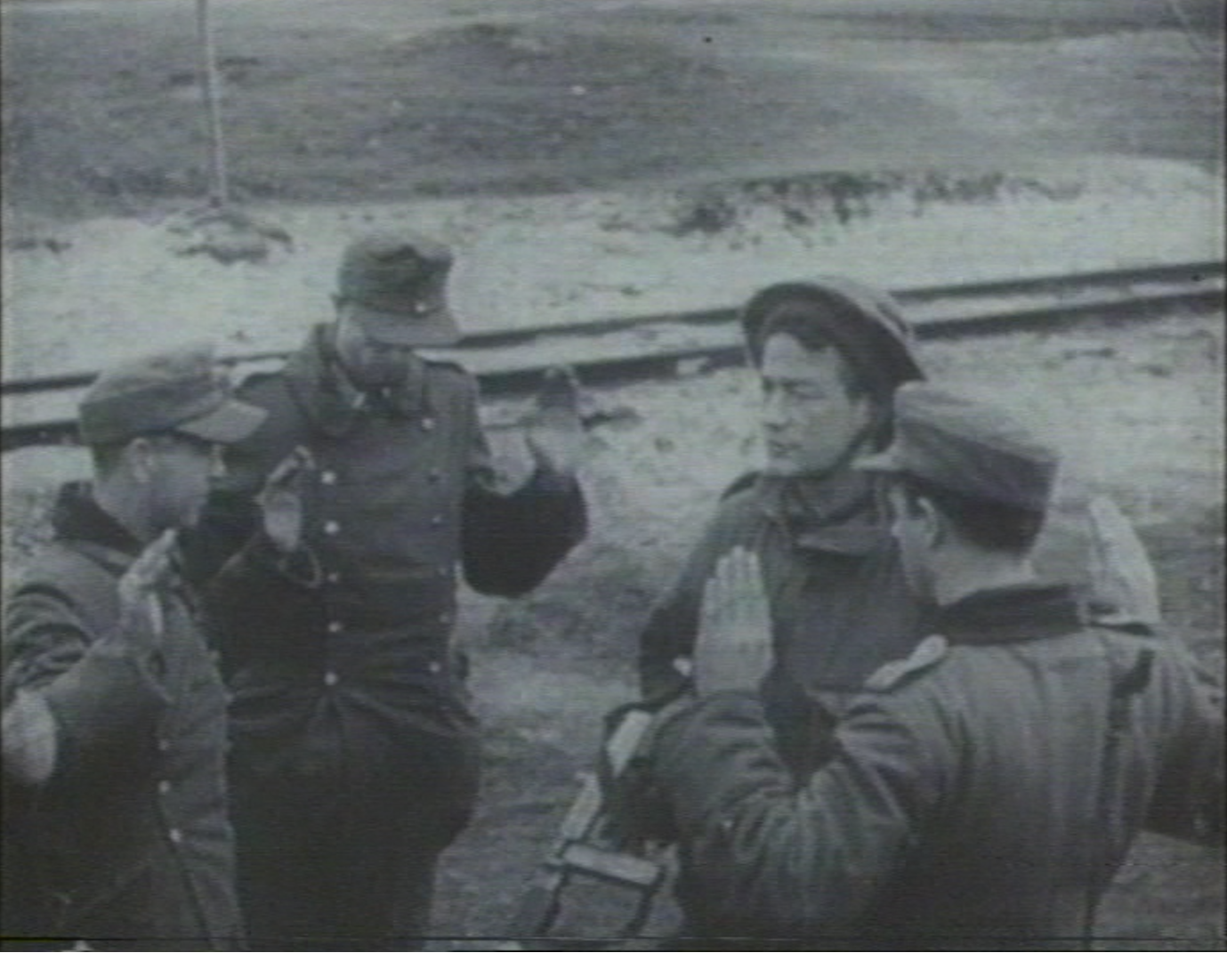 Captain Christian Grung-Olsen (No. 5 Troop - Norway, 10 Interallied Commando, 1944) talking to captured German soldiers